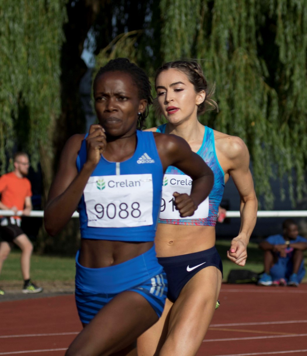 2017 Guldensporenmeeting Kortrijk